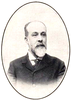 Portrait photograph of the Spanish writer, physician and politician Manuel Cárceles Sabater, in the book Tratado del juego de damas that published in 1904.